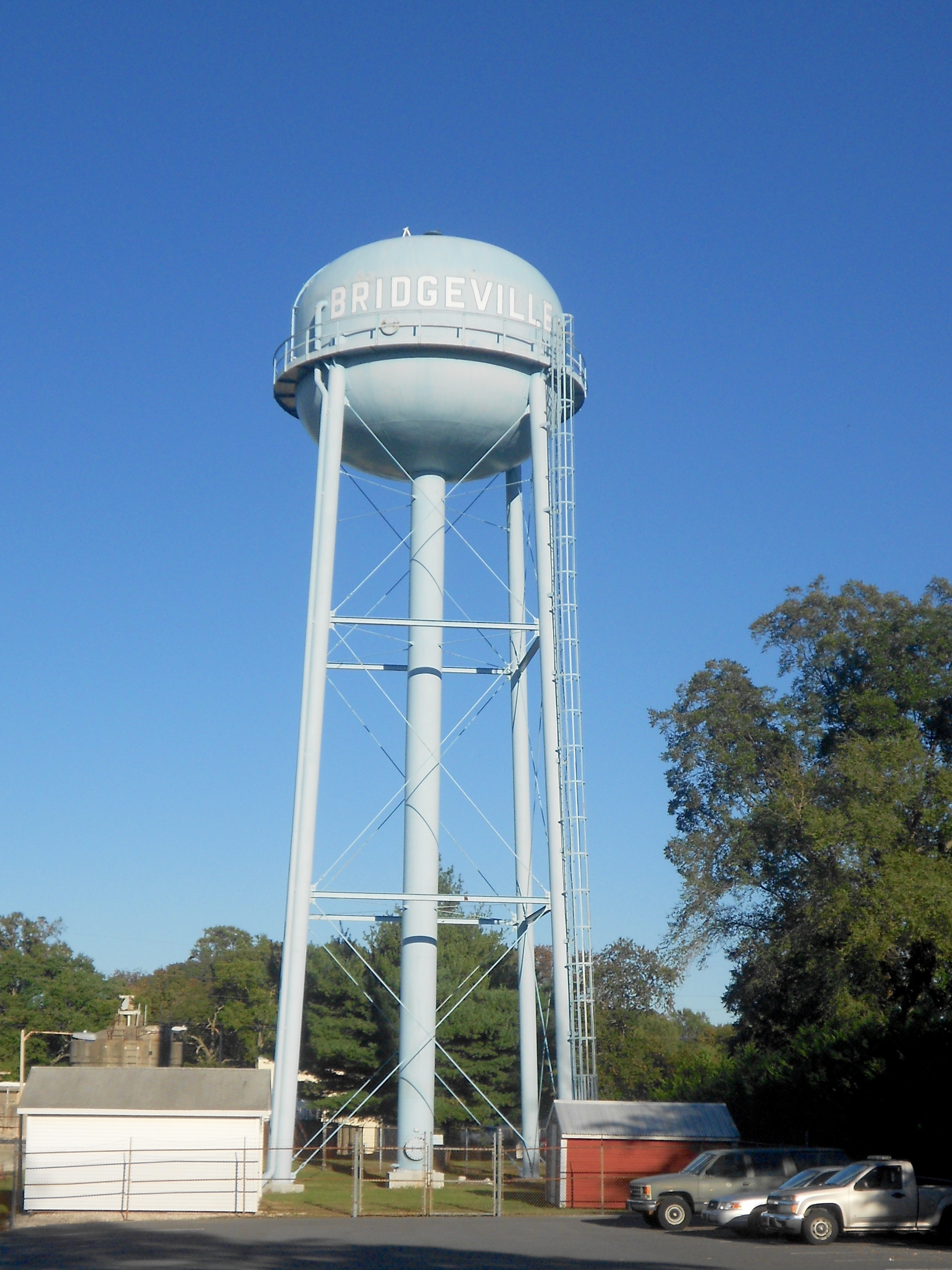 Watertower at the end of Market St., Bridgeville, Delaware